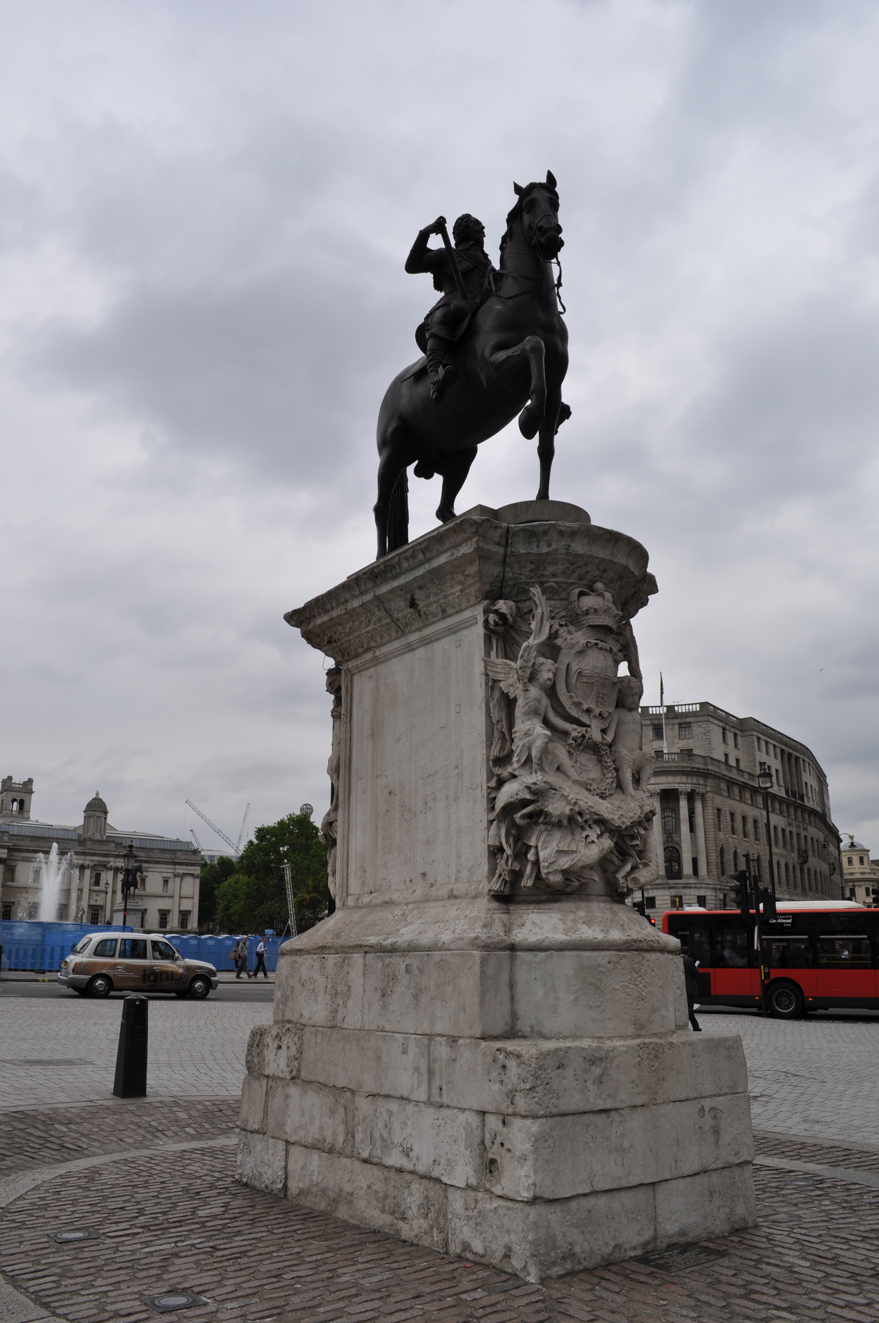 Statue of Charles I of England at Charing Cross with part of Trafalgar Square in the immediate background